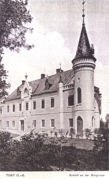 Palace in Toszek - early 20th century